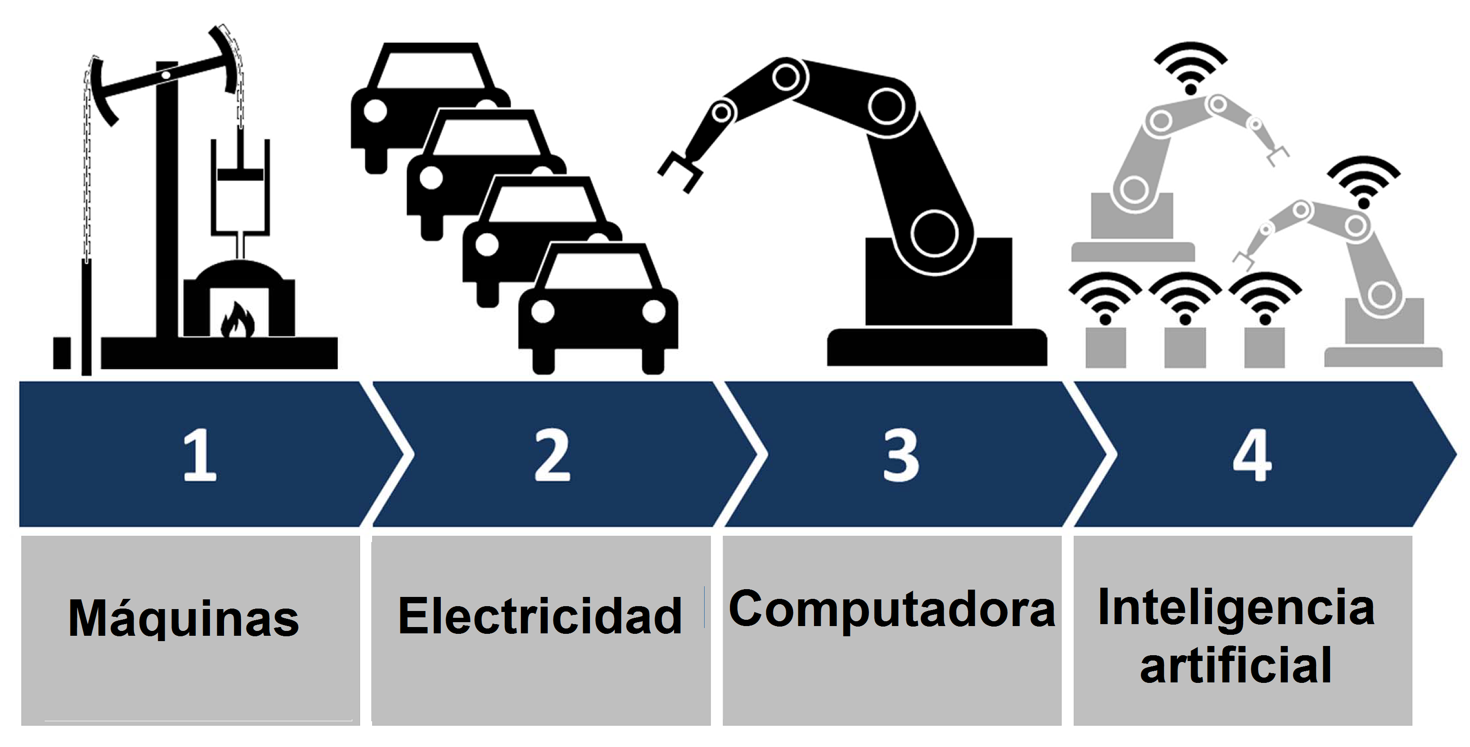 Illustration of Industry 4.0, showing the four "industrial revolutions" with a brief Italian description. See also File:Industry 4.0 NoText.png for a version without text.